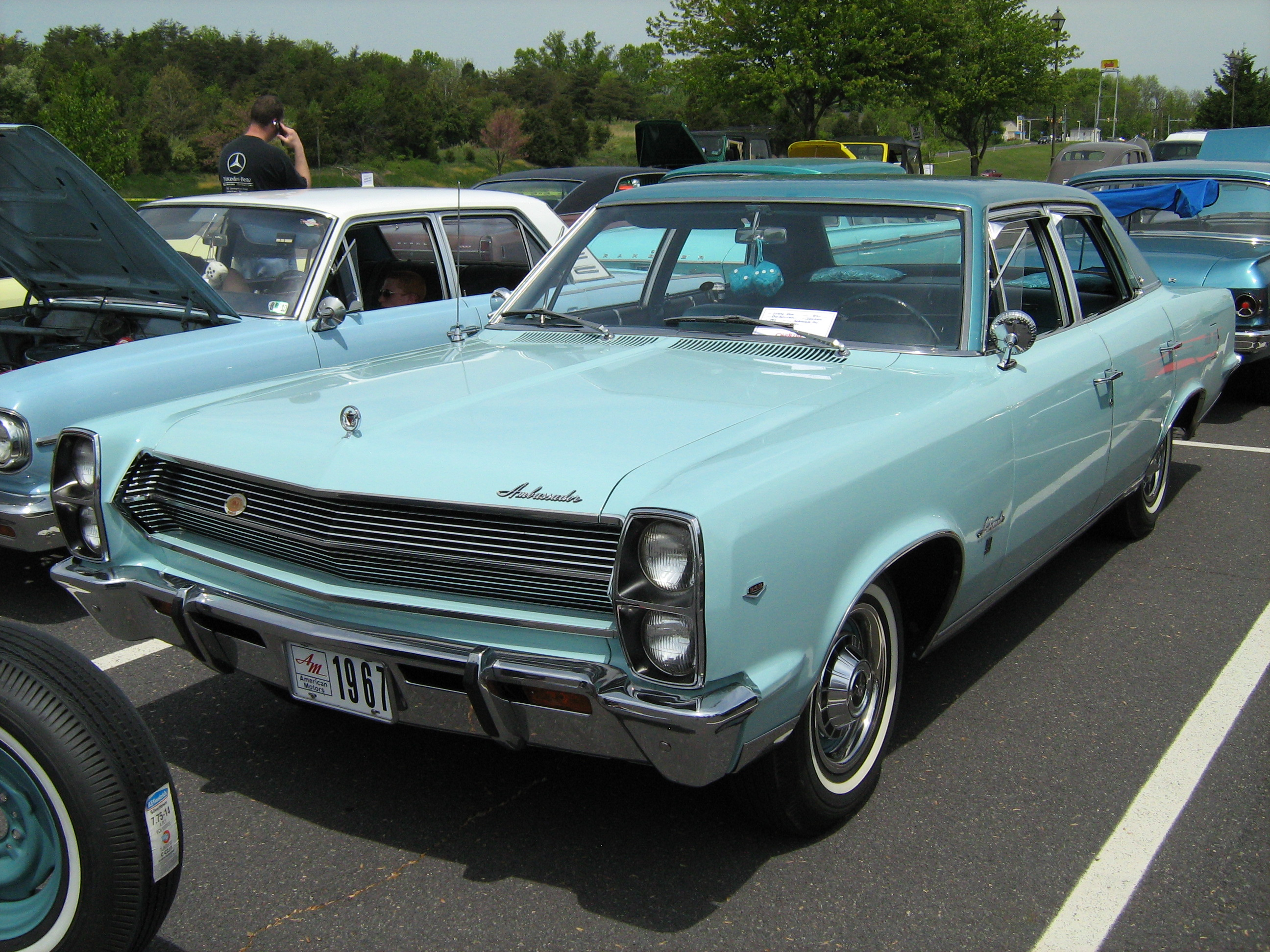 1967 Ambassador 990 four-door sedan by American Motors Corporation (AMC). This car is finished in two-tone aqua paint (Alameda Aqua #P34 primary color and Marina Aqua Metallic #P8 on the roof) with a matching interior. Picture was taken at the "2010 AMC Invasion of Gettysburg" (Pennsylvania).